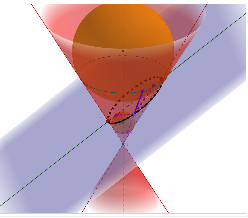 Dandelin's Theorem, made in GeoGebra